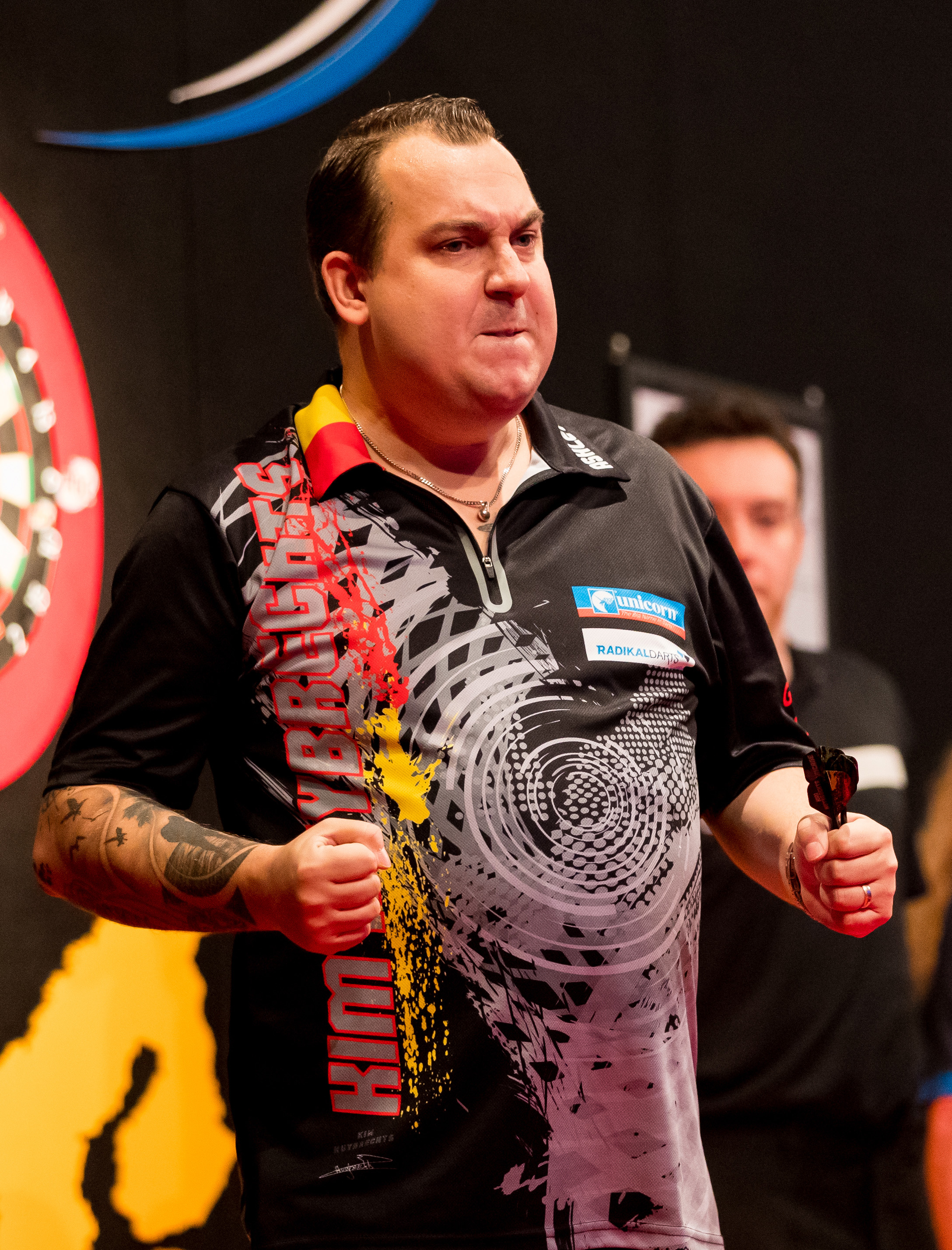 Robert Thornton 5:6 Kim Huybrechts during PDC Europe Darts Matchplay at Maimarkthalle, Mannheim, Baden-Württemberg, Germany on 2019-09-06, Photo: Sven Mandel